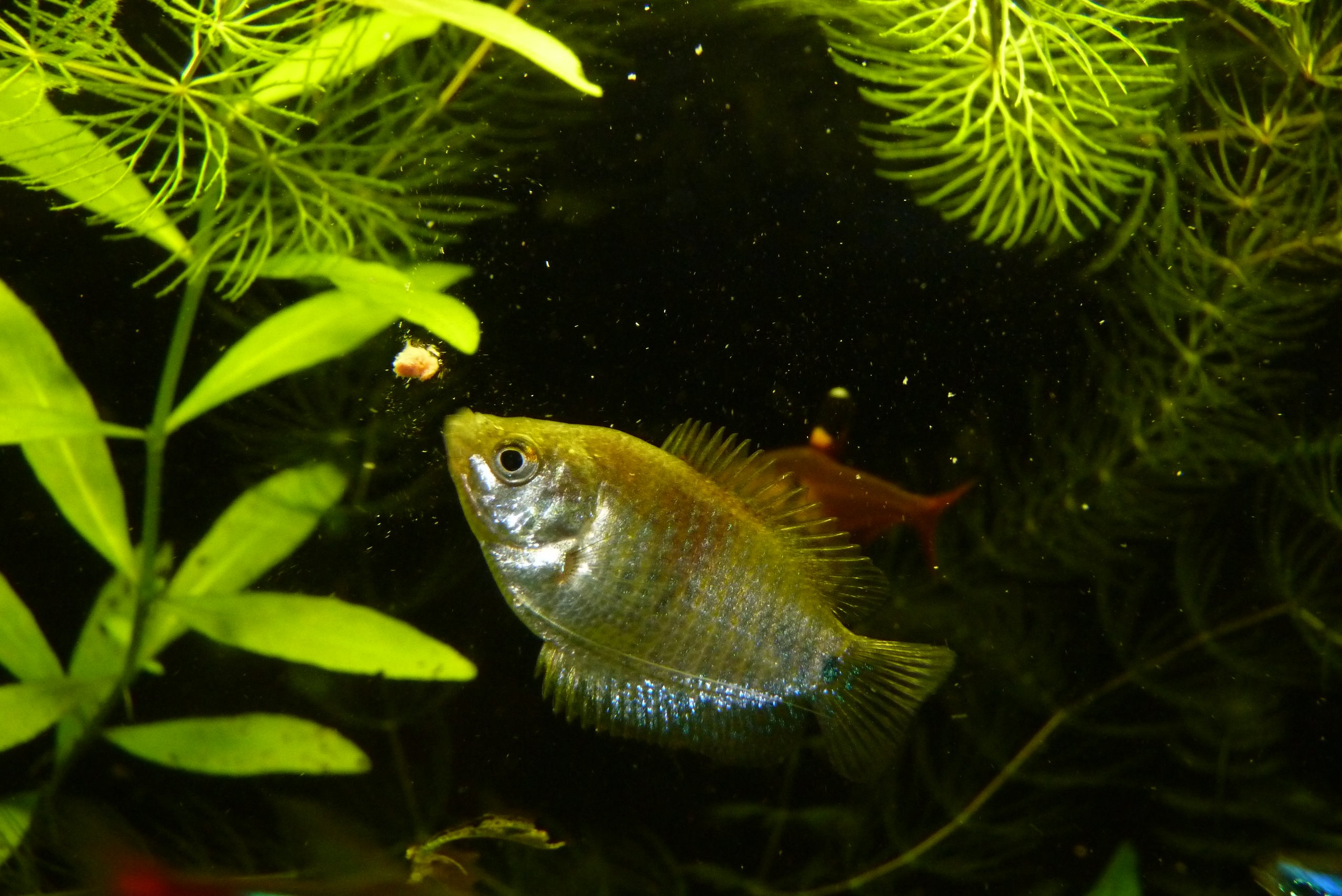 a female colisa lalia